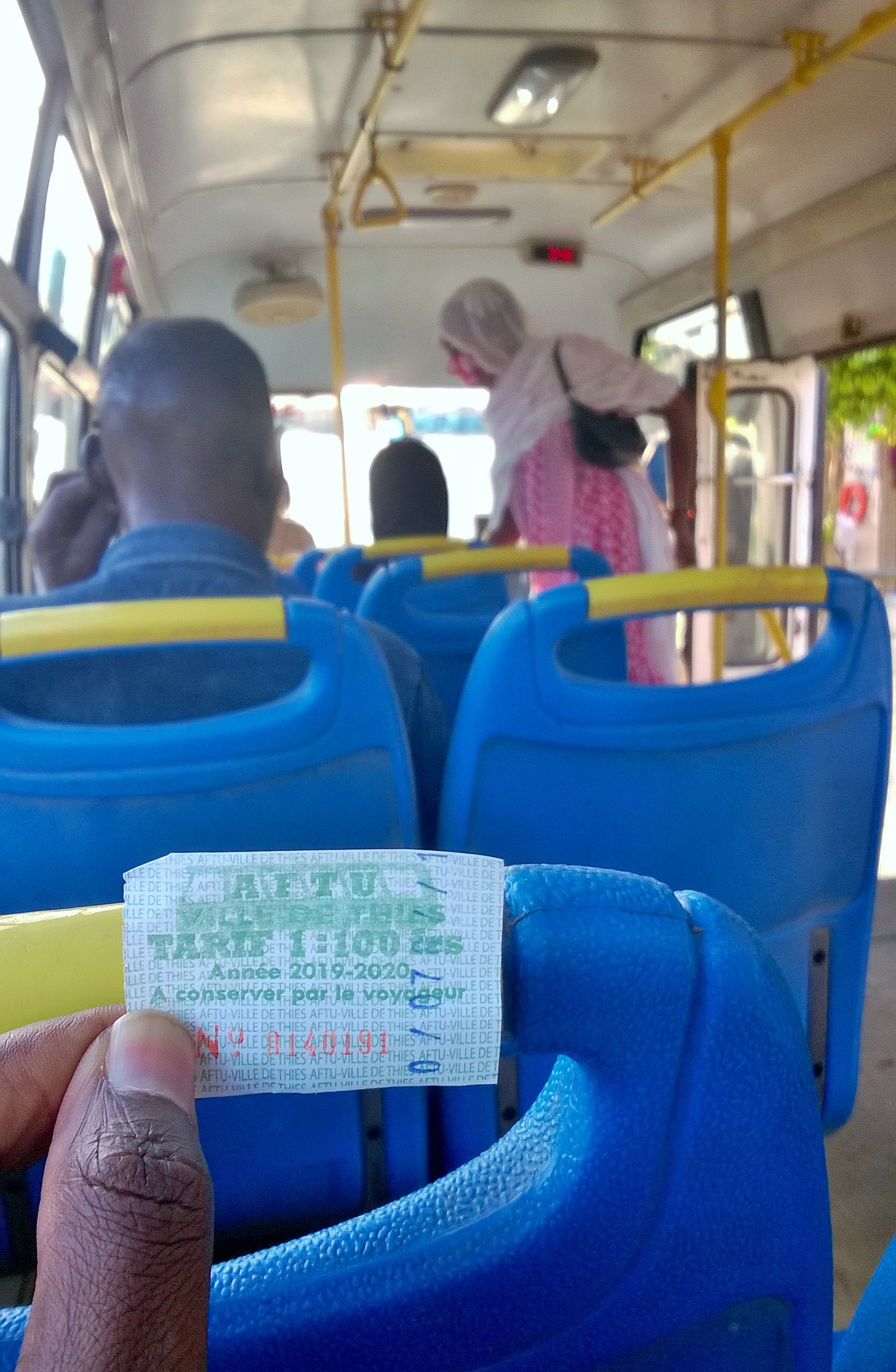 In urban transport, the carriers require customers to buy a ticket to be able to travel without problems otherwise controllers can board to control the passengers and if you do not have a ticket, they can punish you very severely